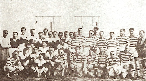 ACF Padua - GUF Treviso, rugby union match in Italy (1932)